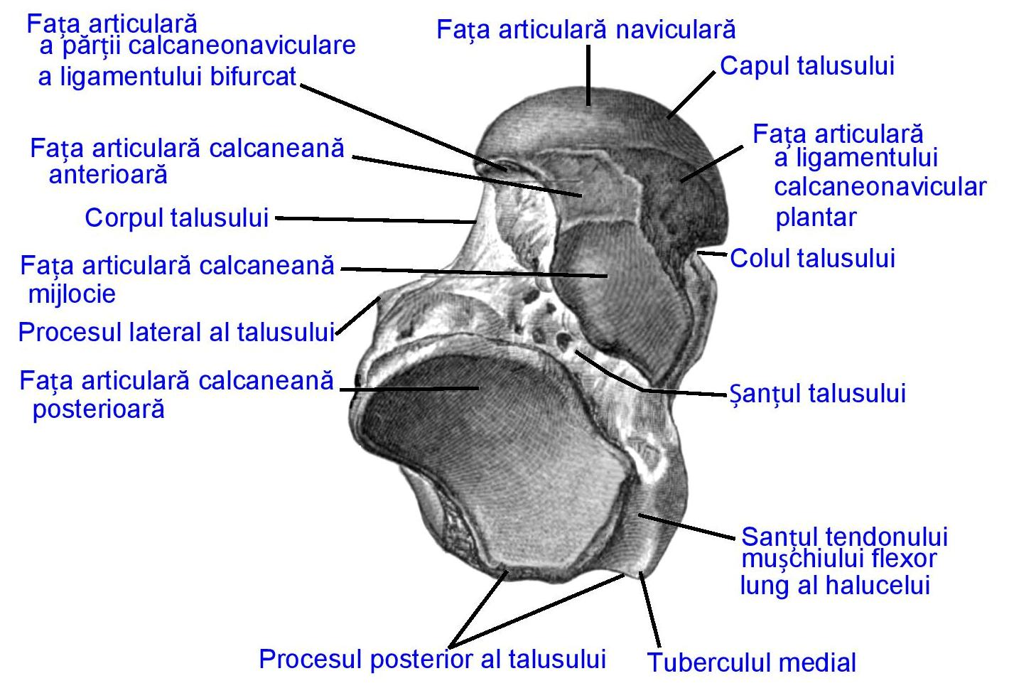 Talus, lower face